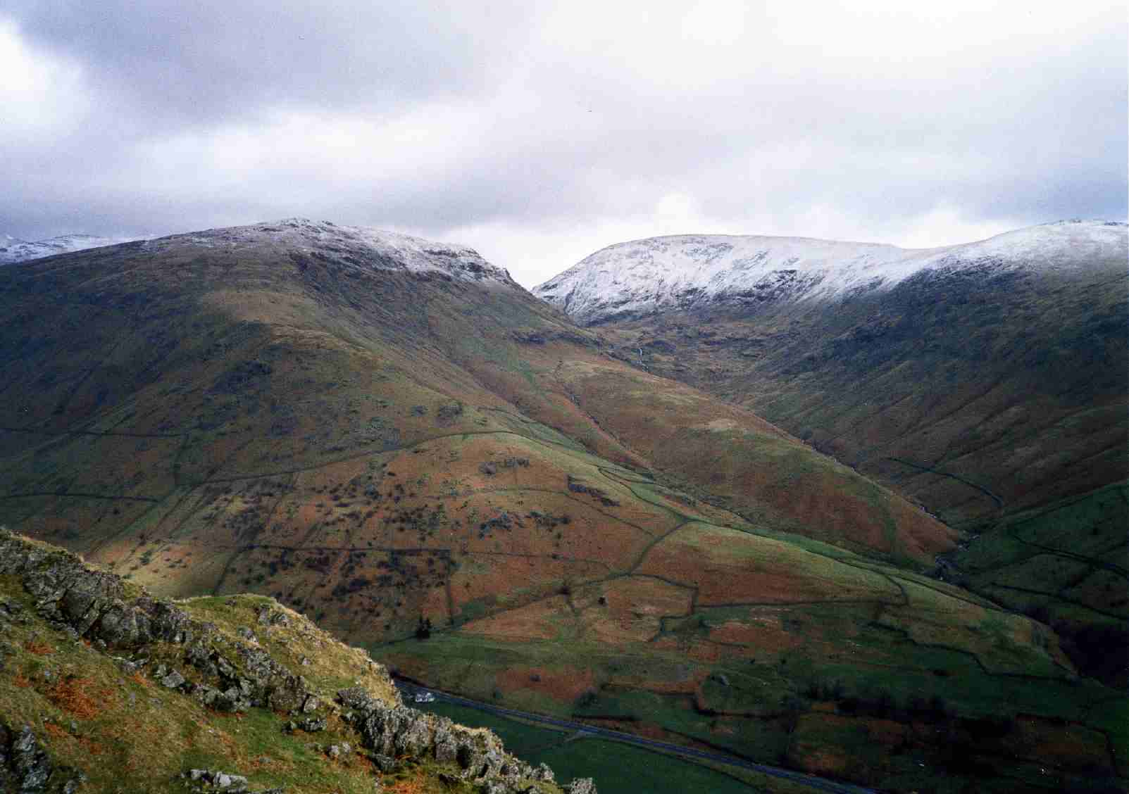 Seat Sandal (left) and Fairfield (right) seen from Helm Crag two km to the SW. Personal picture taken by Mick Knapton